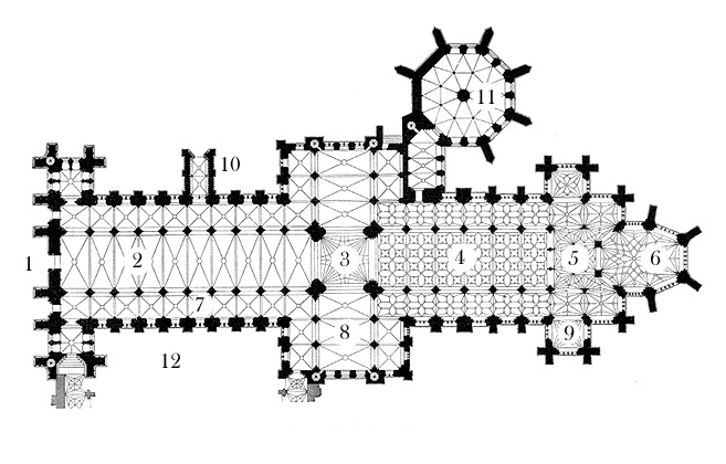 Plan of Wells Cathedral, England, with numbers. 1. West front, 2. Nave, 3. Crossing tower, 4. Choir, 5. Retrochoir, 6. Lady Chapel, 7. Aisle, 8. Transept, 9. Eastern transept, 10. North porch, 11. Chapter House, 12. Cloister.